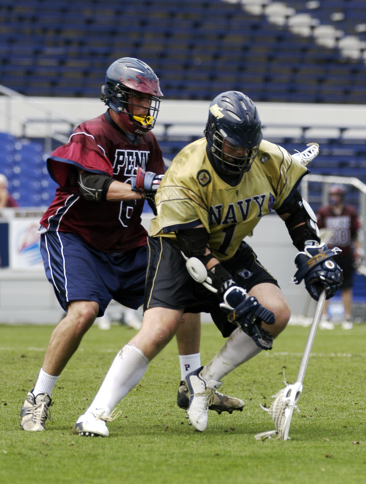 (original Navy caption): Midshipman 3rd Class Ian Dingman lifts the ball off the ground and away from University of Pennsylvania's Andrew Blechman during the first round action of the NCAA Lacrosse tournament. This is the first time since 1989 that the Navy (13-2), ranked number 2 in the nation, will advance to the second round of the Div. I NCAA Lacrosse Tournament, following an opening-round 11-5 victory over 13th-ranked Penn (7-7) Sunday at Navy-Marine Corps Memorial Stadium.